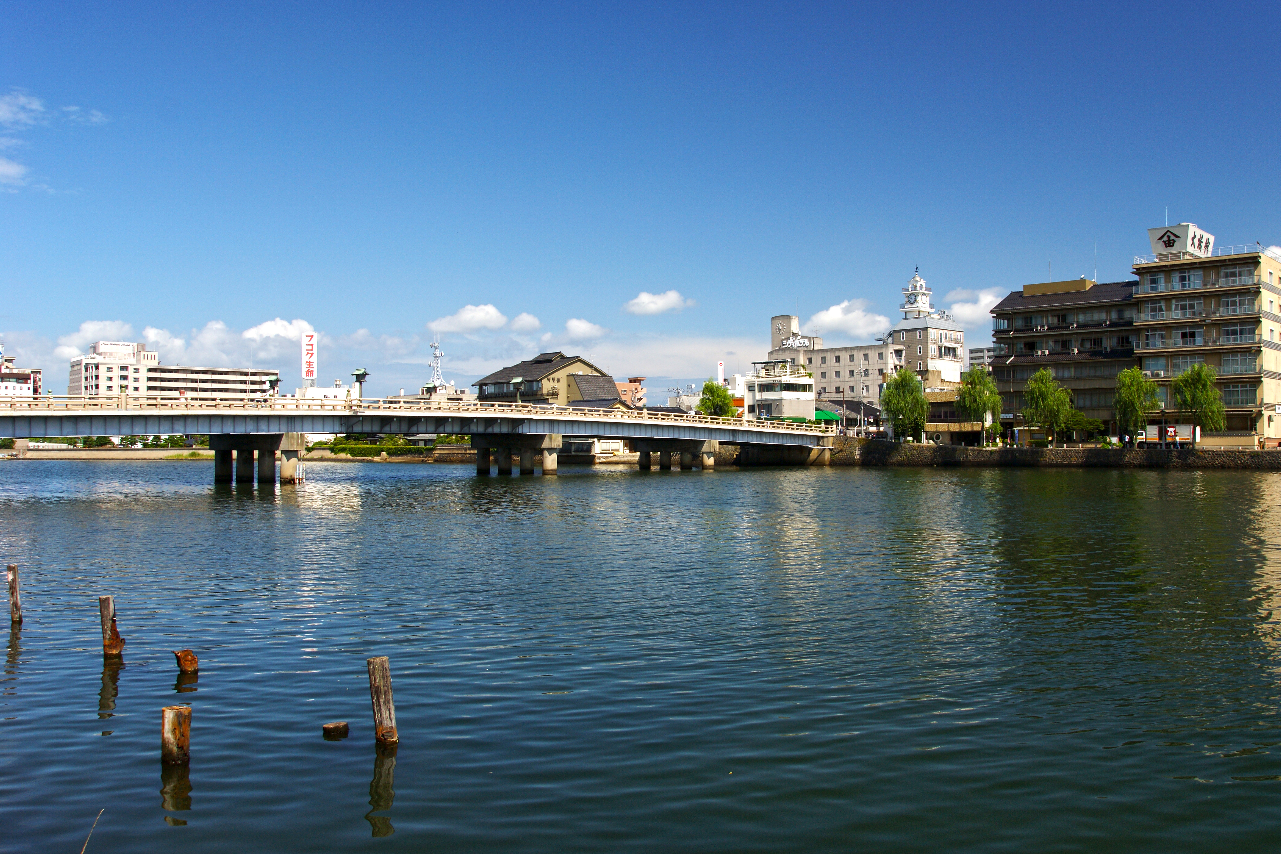 Ohashi in Matsue, Shimane prefecture, Japan.